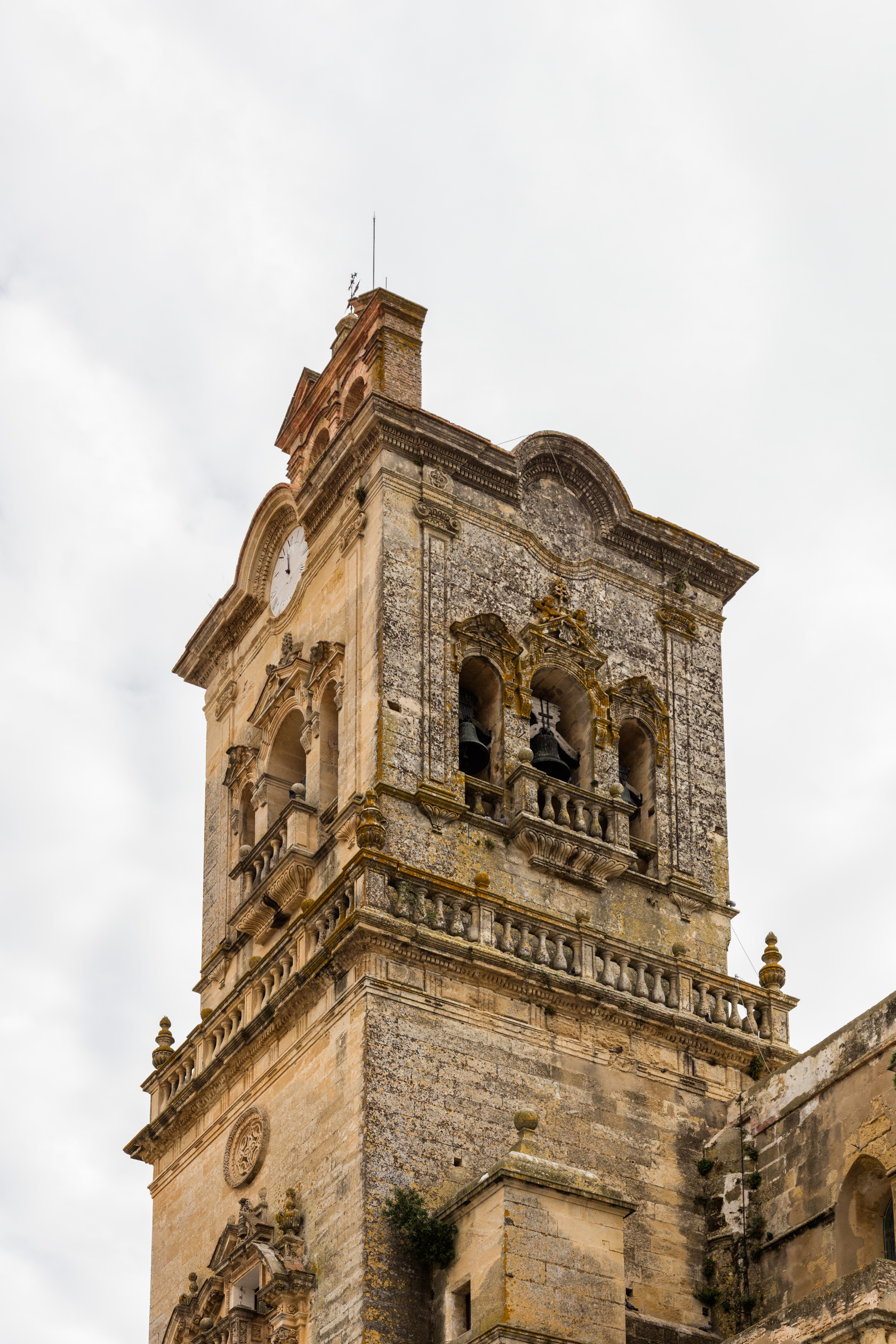 Church of San Pedro, Arcos de la Frontera, Cádiz, Spain